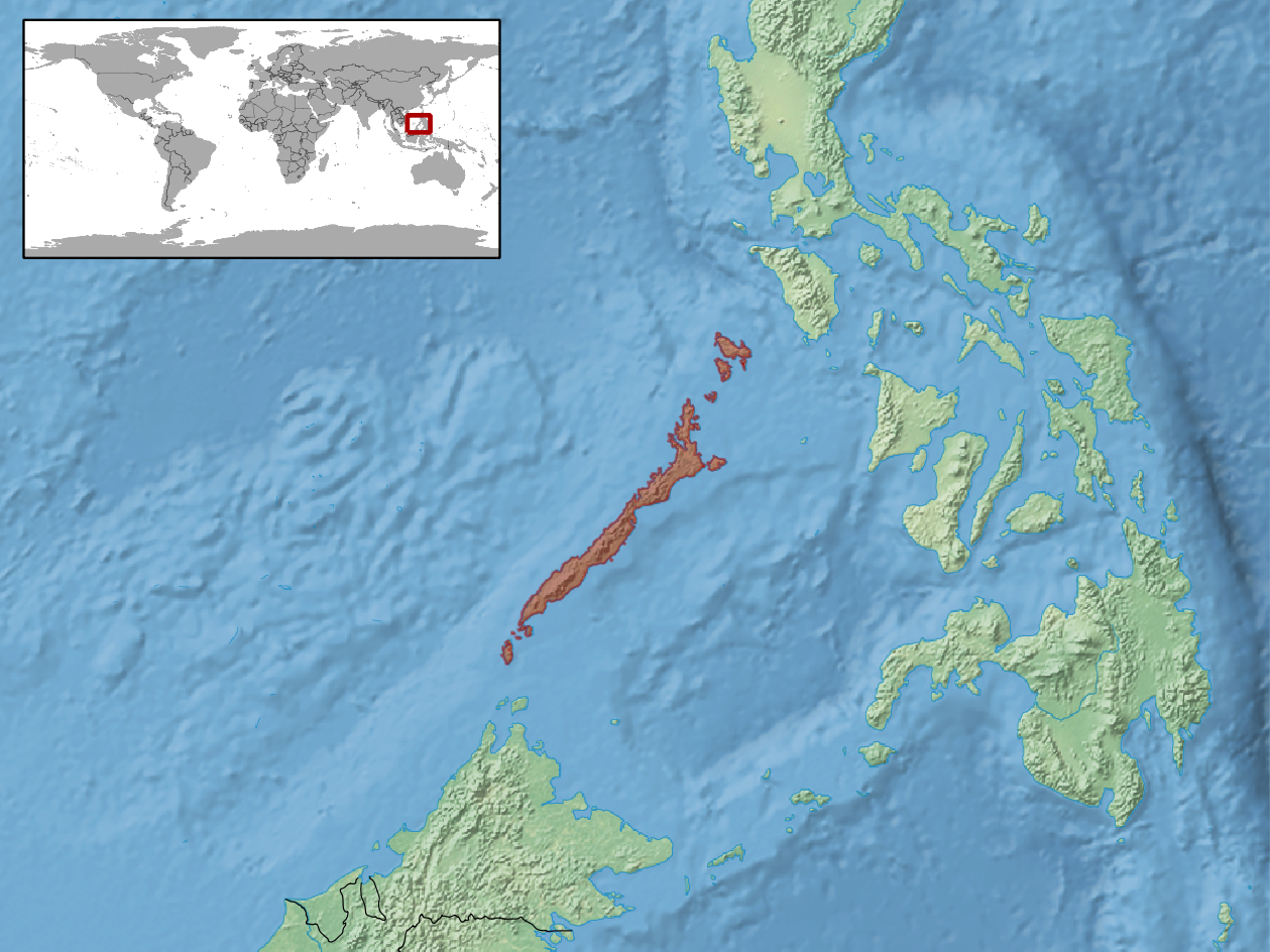 geographic distribution of Gekko palawanensis (Native: Philippines)